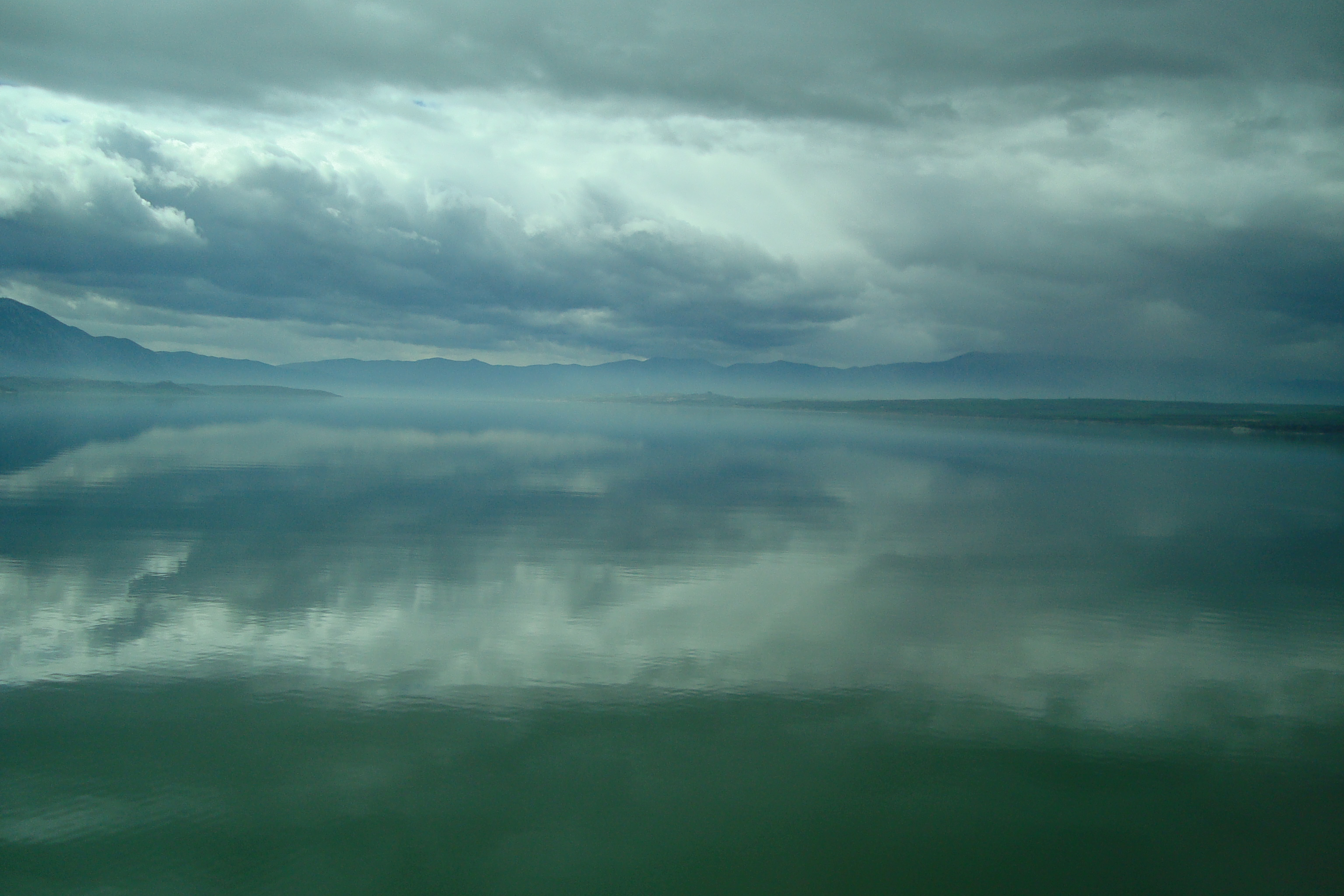 Lake Polyfytos, artificial lake of river Aliakmonas south of Kozani and north of Servia